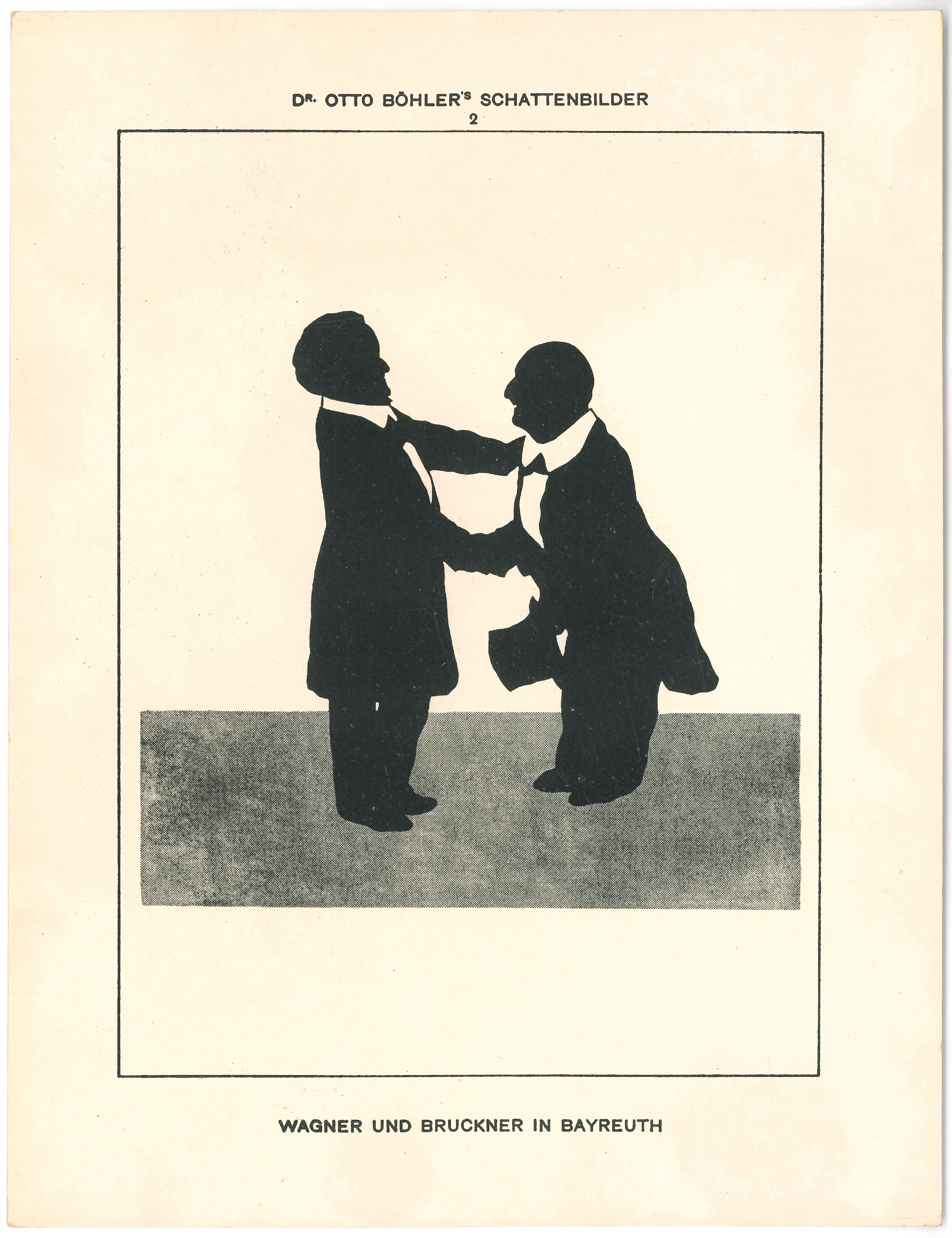 Richard Wagner und Anton Bruckner in Bayreuth (1873), silhouette 20 x 26 cm; photo of Böhler´s silhouette printed on thick card